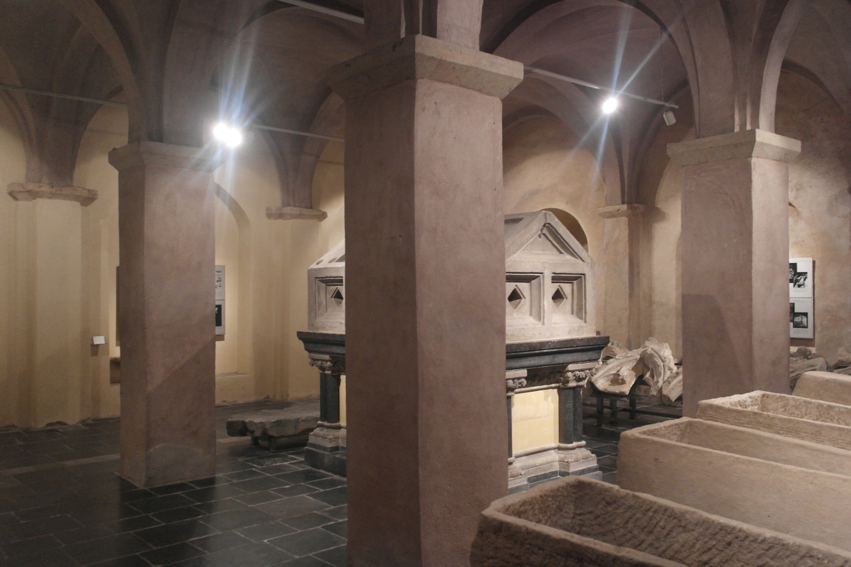 View of the lapidarium ("stone collection") in the East Crypt of the Basilica of Saint Servatius in Maastricht, the Netherlands. Highlights include the cenotaph of Monulph and Gondulph, early Christian grave stones, sections of a Gothic rood screen and other architectural sculptures.